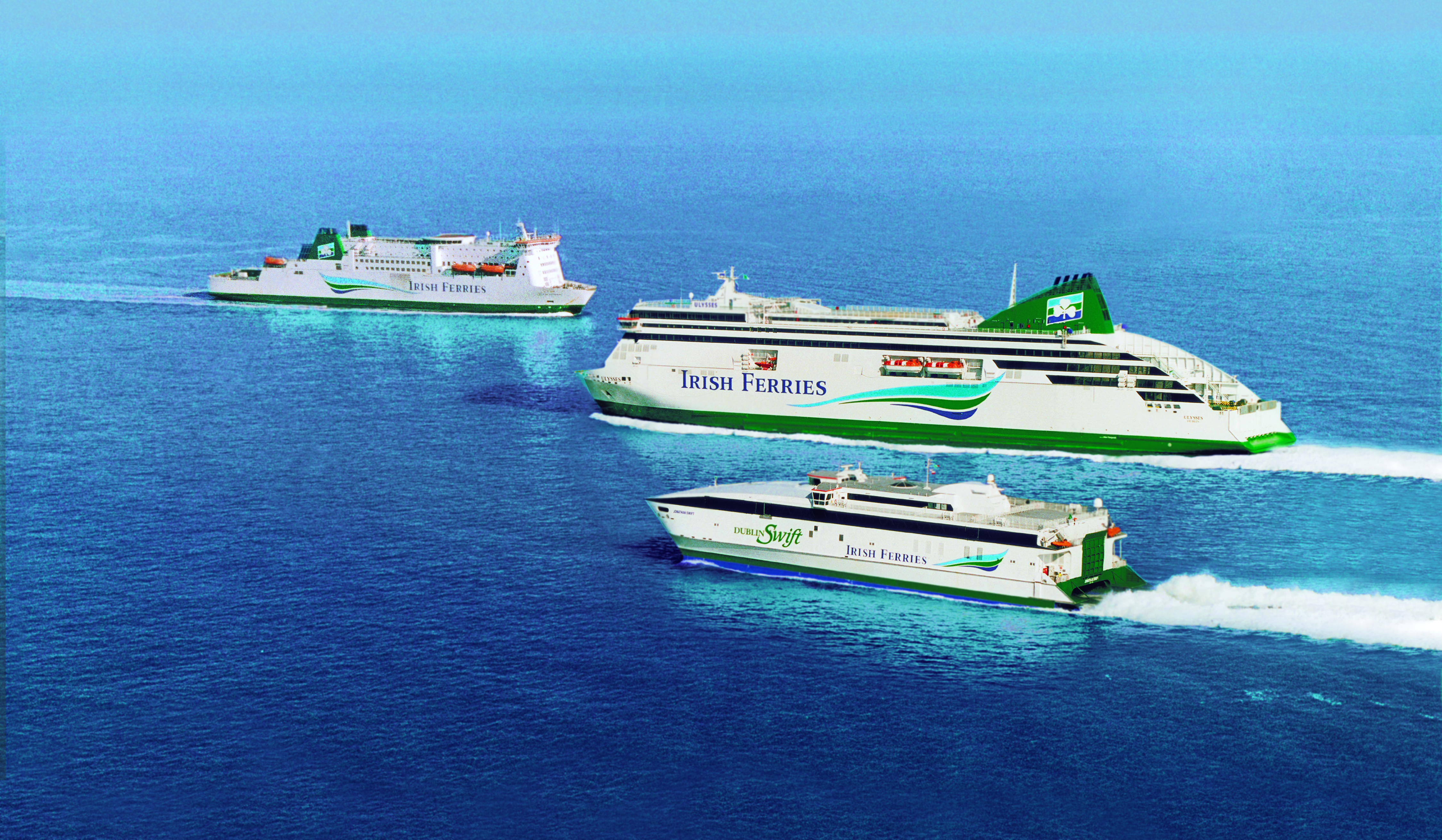 Irish Ferries - Irish Sea Fleet 2010